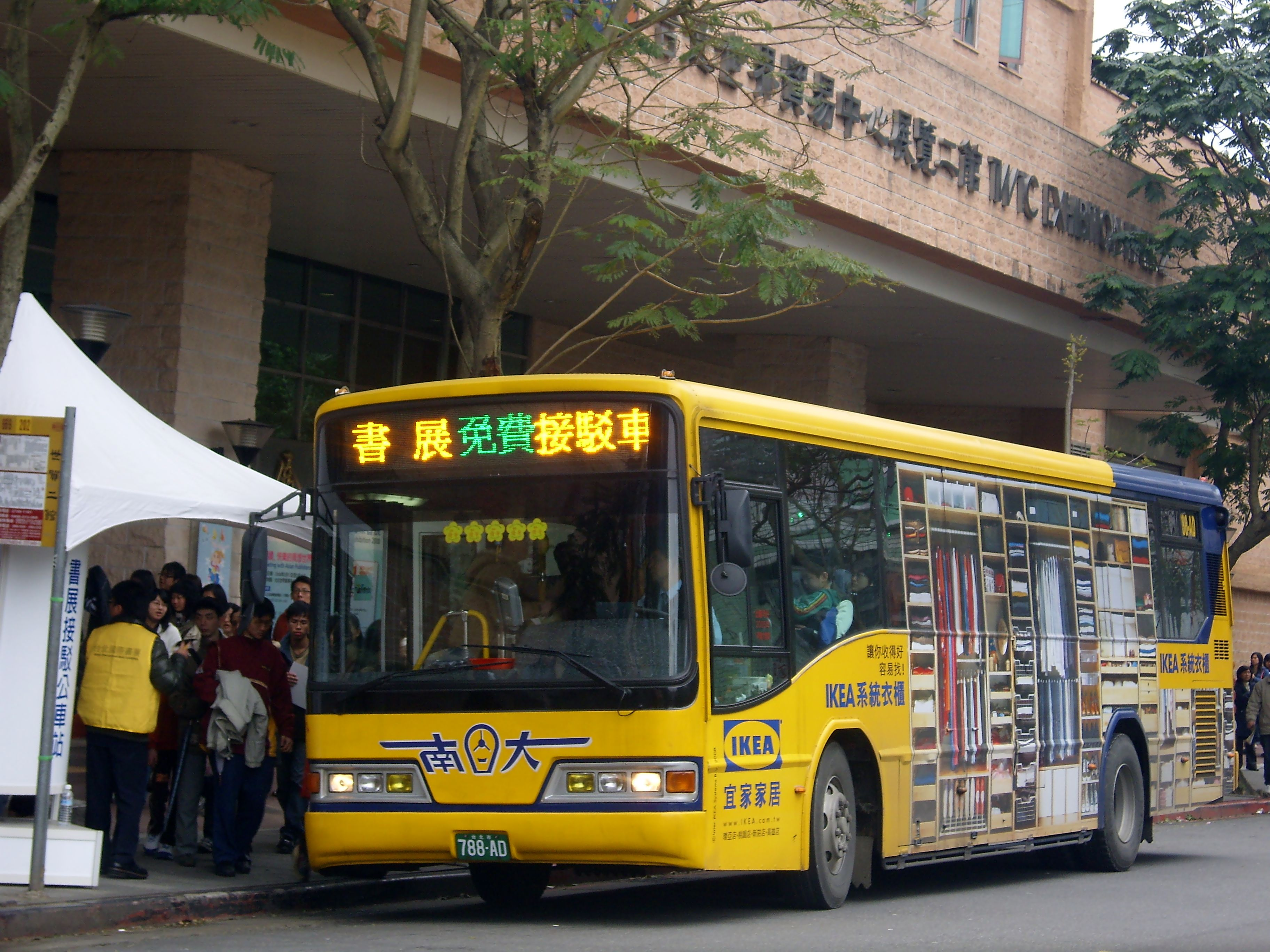 2008 Taipei International Book Exhibition - Inter-Hall Shuttle Bus at Taipei Show.